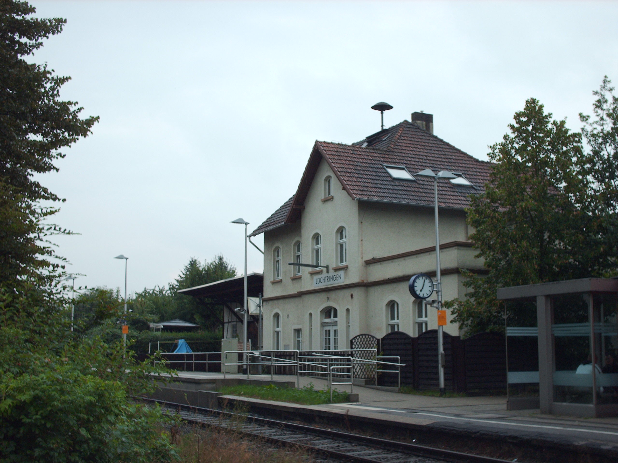 Lüchtringen station, Höxter, Germany check usage